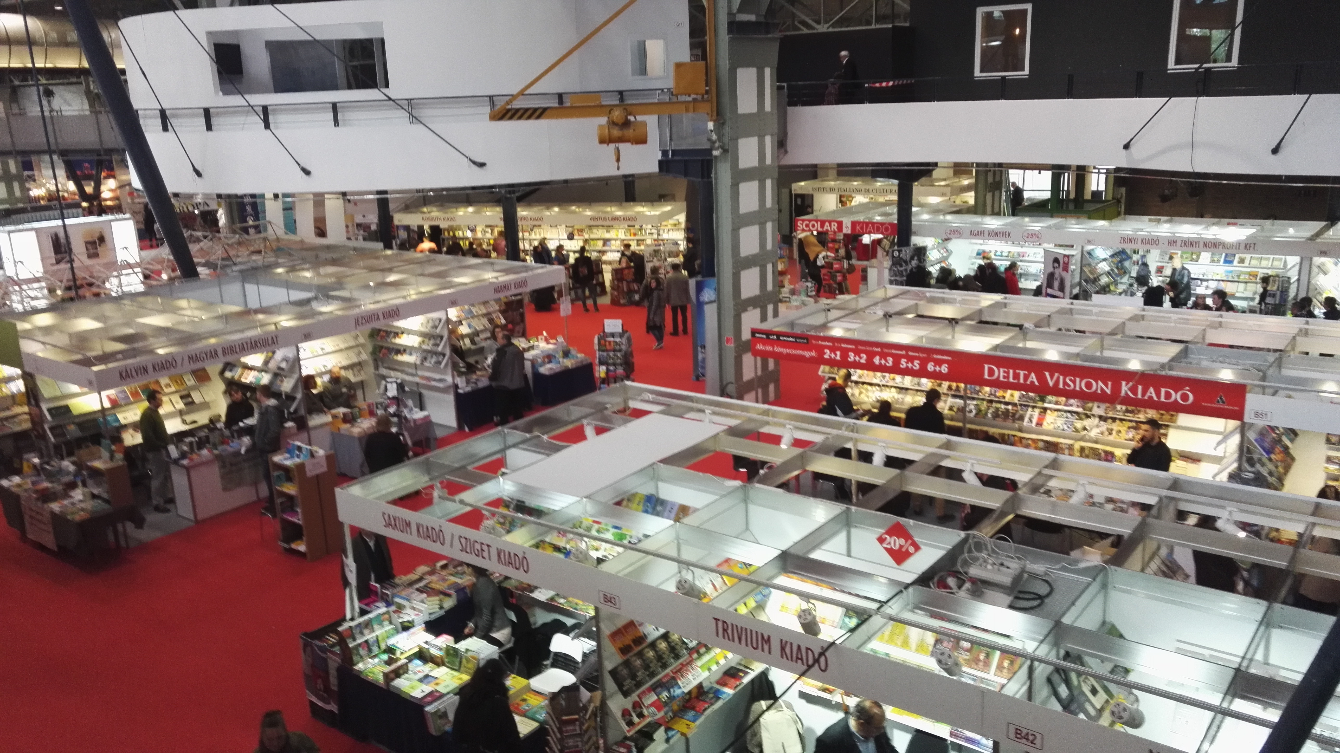 Budapest International Book Festival 2017. Venue: Millenáris, Kis Rókus u. 16-20., Budapest district I